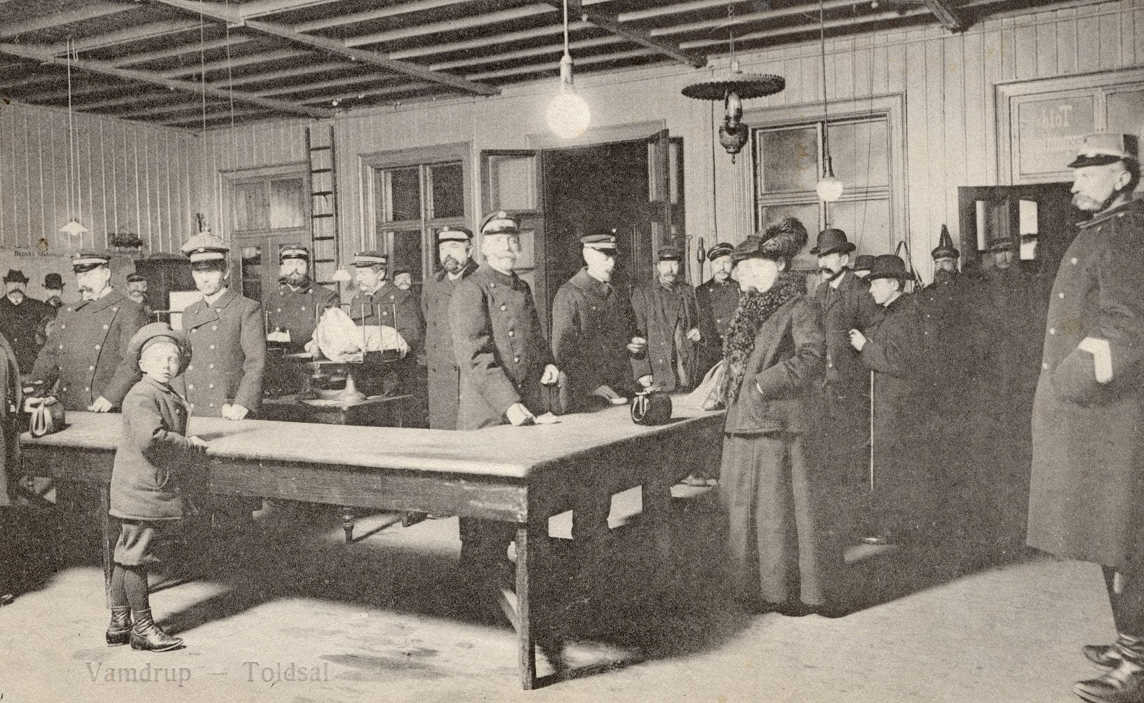 The customs hall at Vamdrup on the Kongeå river (much of which formed the border between Germany and Denmark between 1864 and 1920)